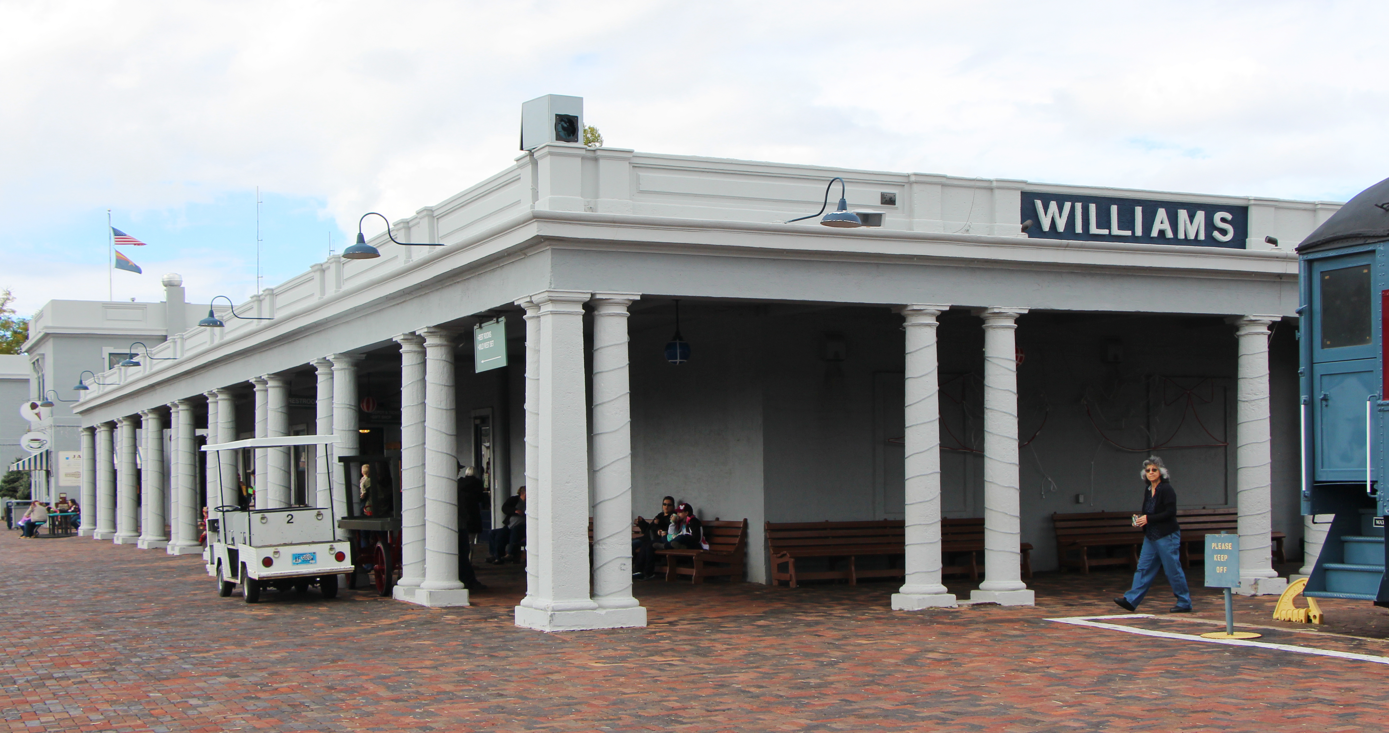 Fray Marcos Hotel, 235 N. Grand Canyon Blvd, Williams, AZ